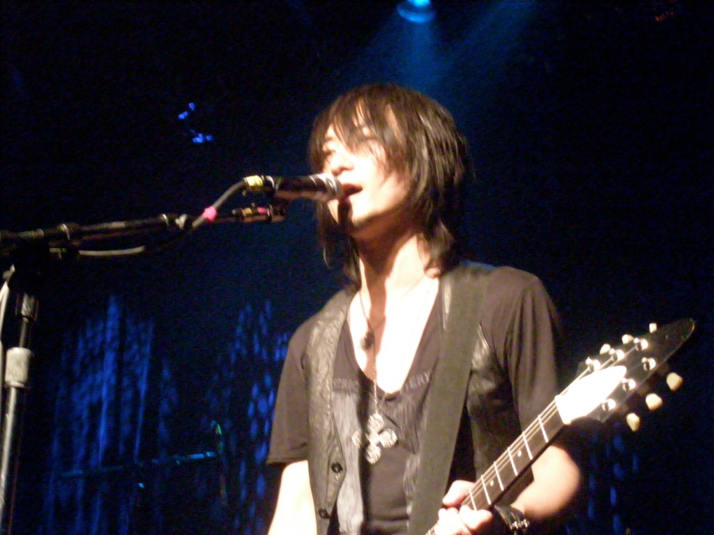 Michiyuki Kawashima of Boom Boom Satellites